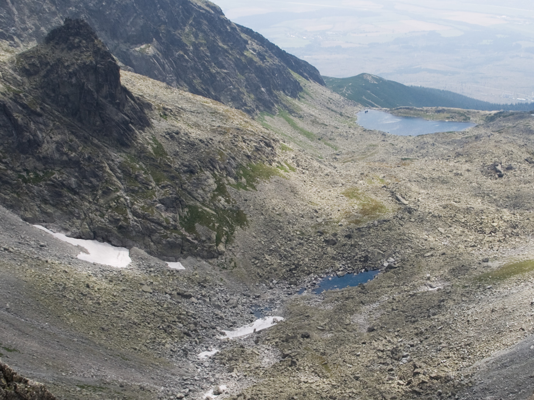 Upper part of Batizovská dolina with Pliesko pod Kostolíkom, Batizovské pleso and the summit of Kostolík.